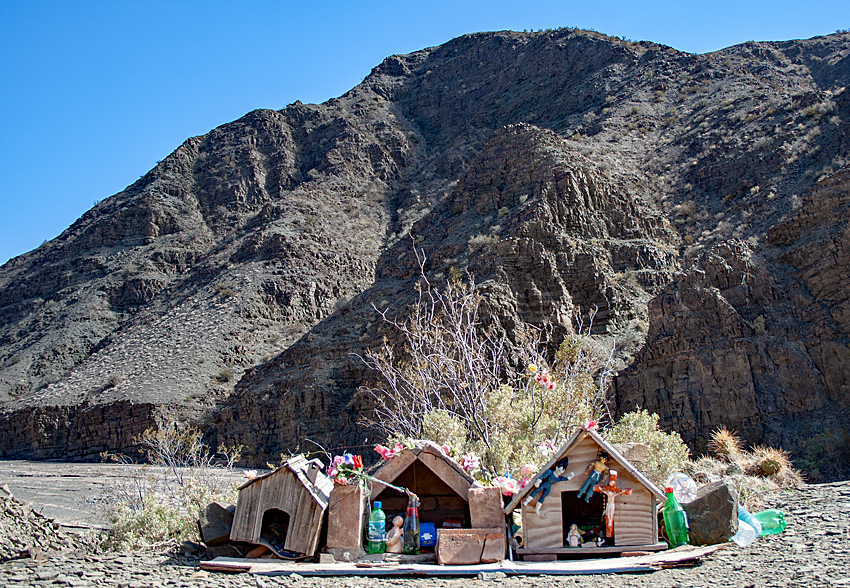 Roadside shrine to Difunta Corea in San Juan province, Argentina